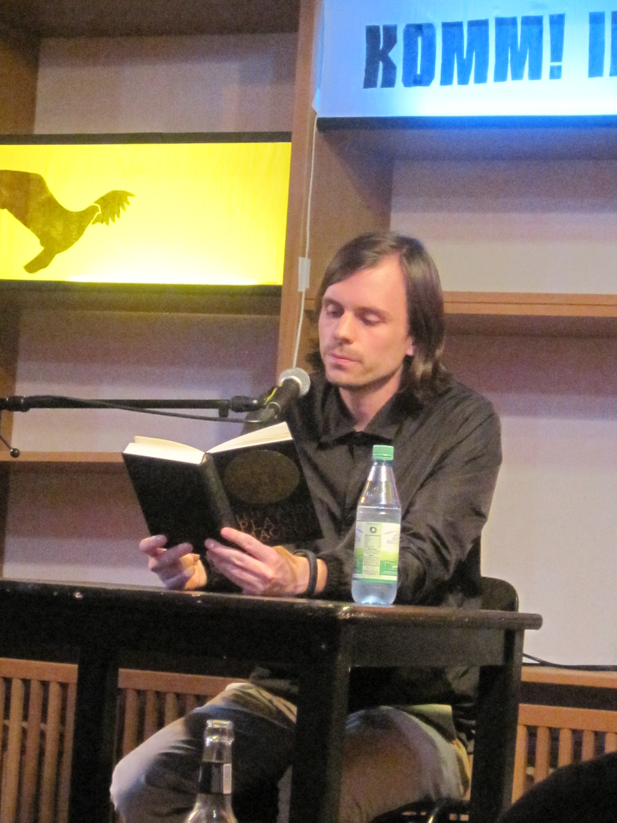 german writer Leif Randt 2015